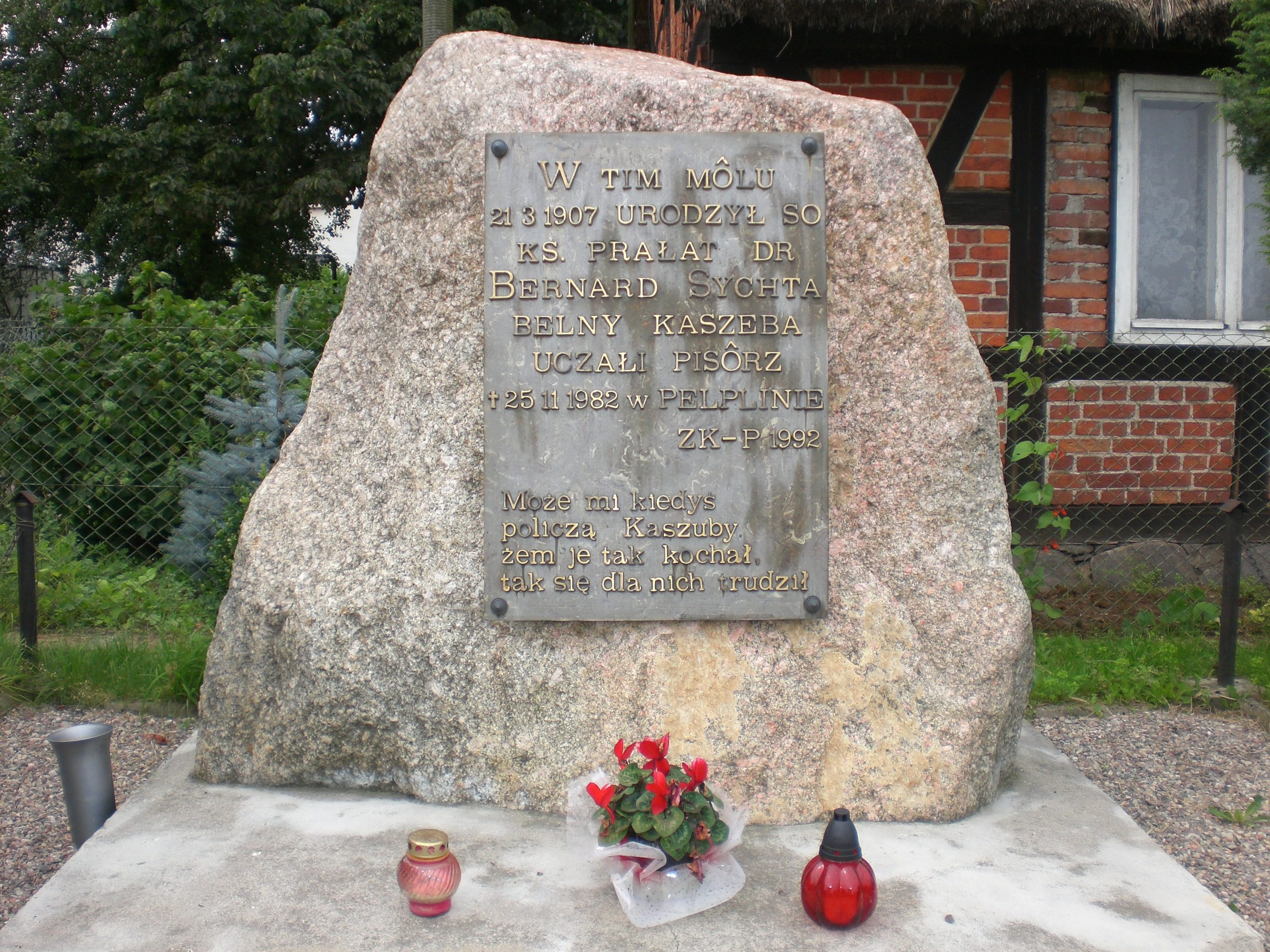 Puzdrowo - monument of Bernard Sychta (a Cashubian priest).